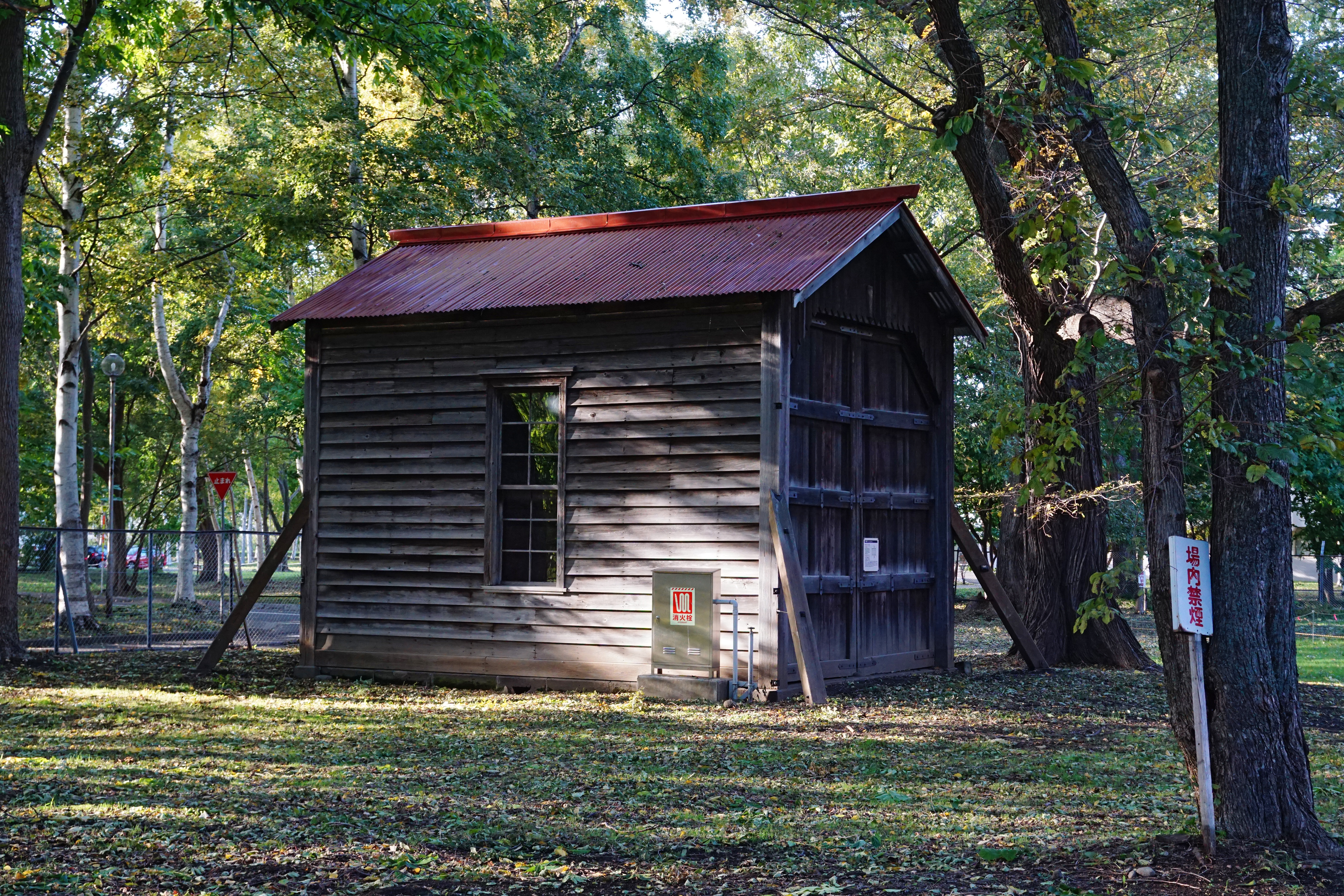 Sapporo Agricultural College 2nd farm at Hokkaido University in Sapporo Hokkaido prefecture, Japan.